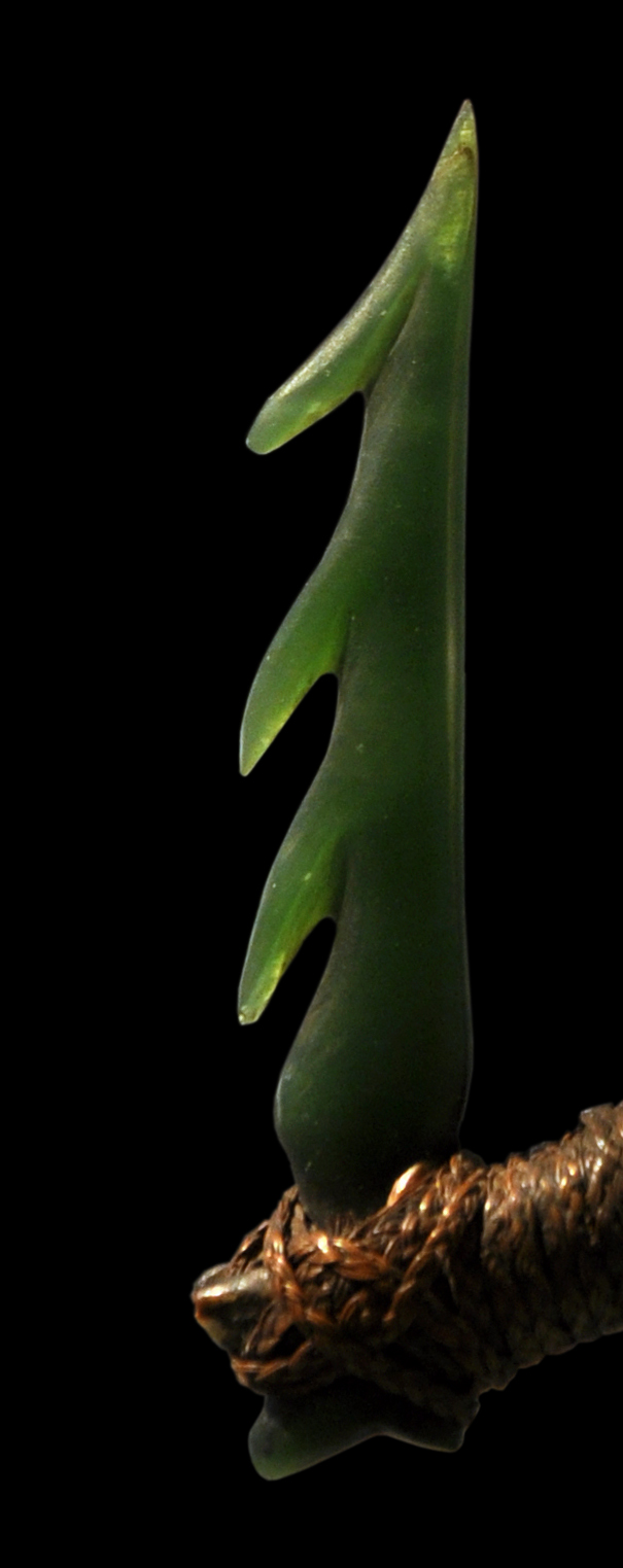 End of a fishing hook, nephrite, Maori culture, 1800-1900. In the exhibition "Maori, their treasures have got a soul", in the Musée des Arts Premiers in Paris, from the end of 2011 to the begining of 2012.